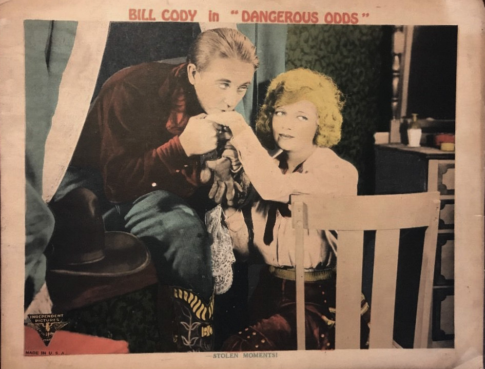 Lobby card for the American western film Dangerous Odds (1925).